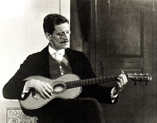 James Joyce playing a guitar